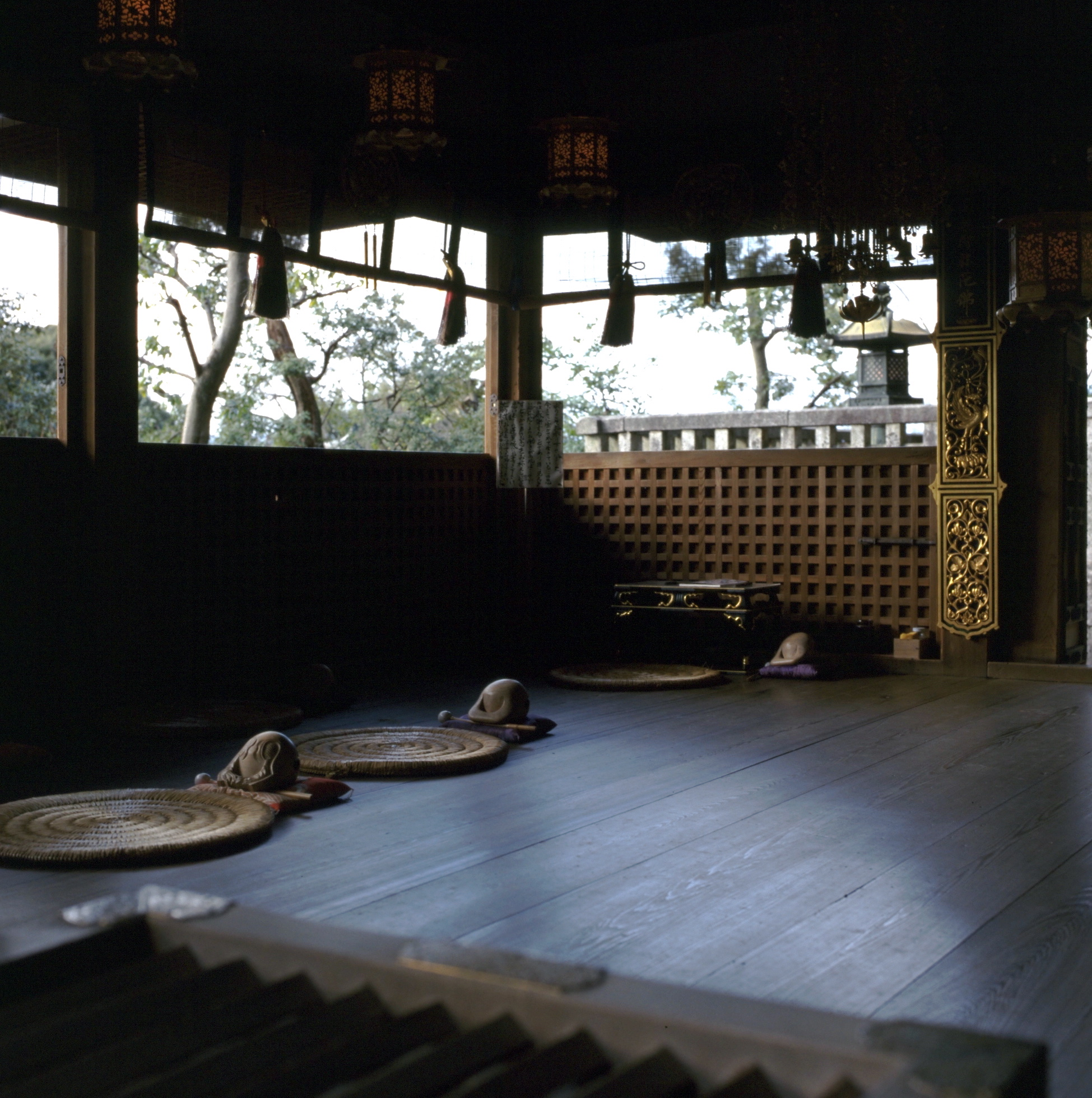 Kyoto, Meditation Room